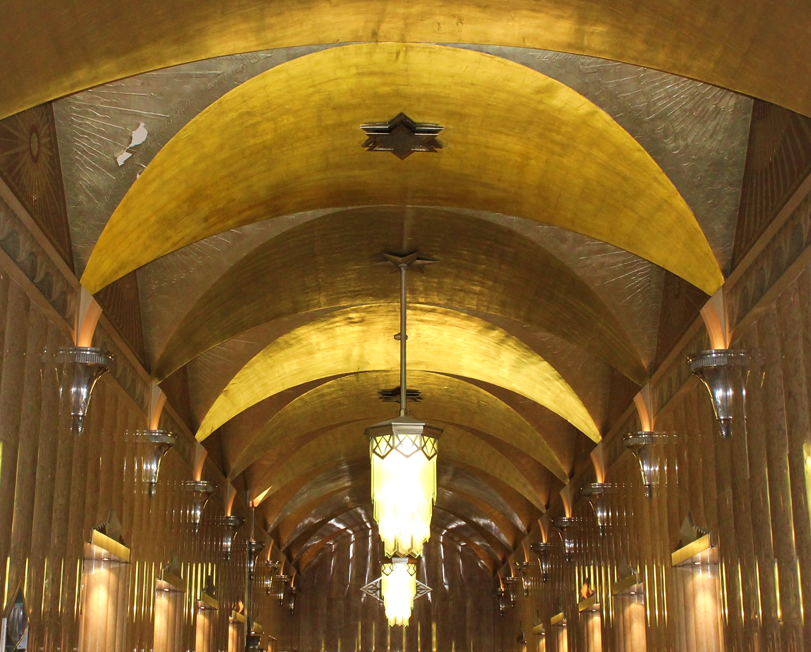 570 Lexington Ave: The stunning lobby ceiling